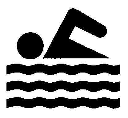 natation logo